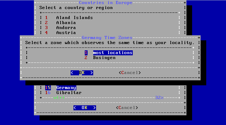 The German exclave Büsingen am Hochrhein is listed as it's own Time Zone, due to historical reasons. As seen here, during the installation of FreeBSD.